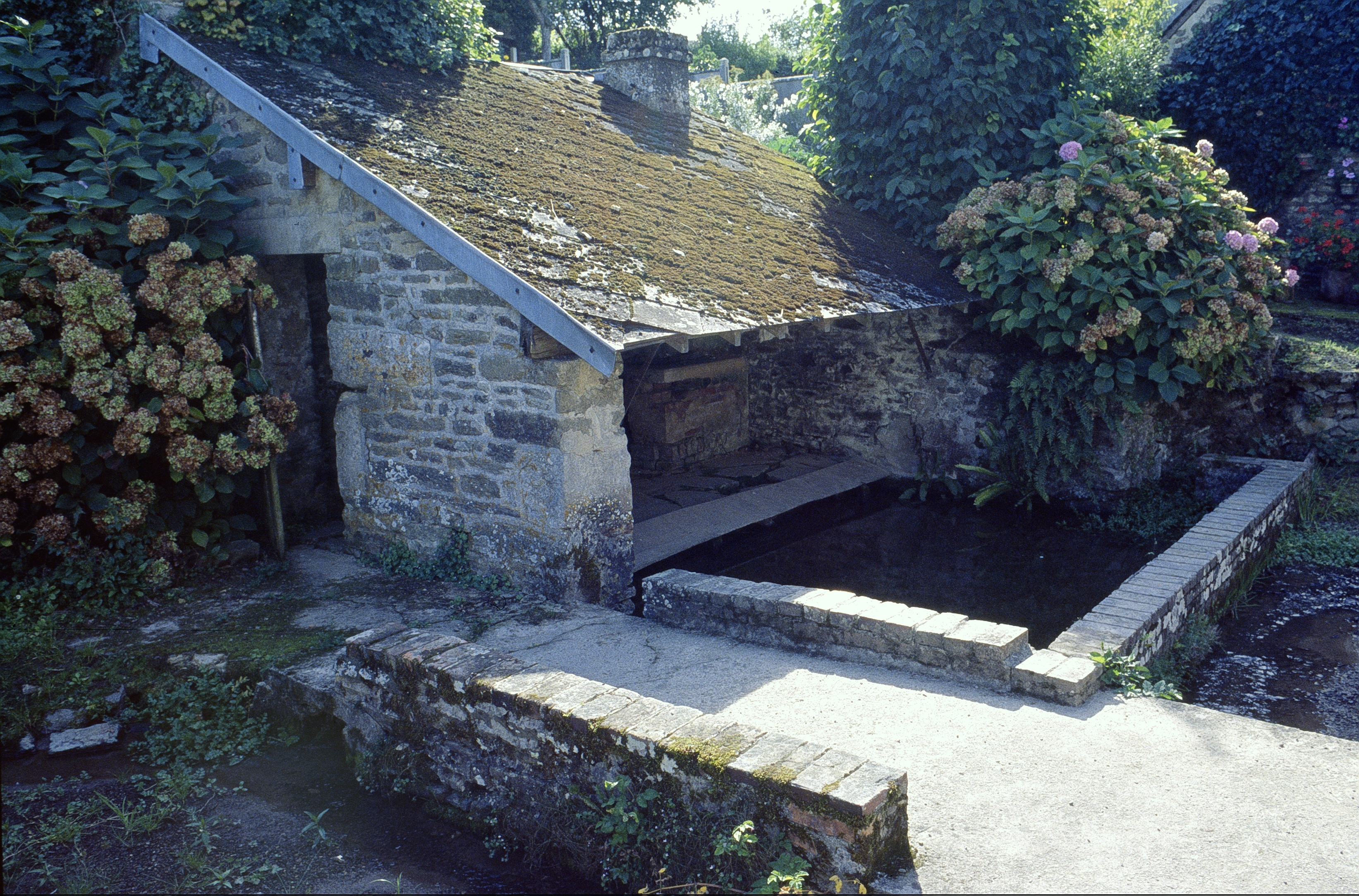 The wash house of Saint Germain Langot